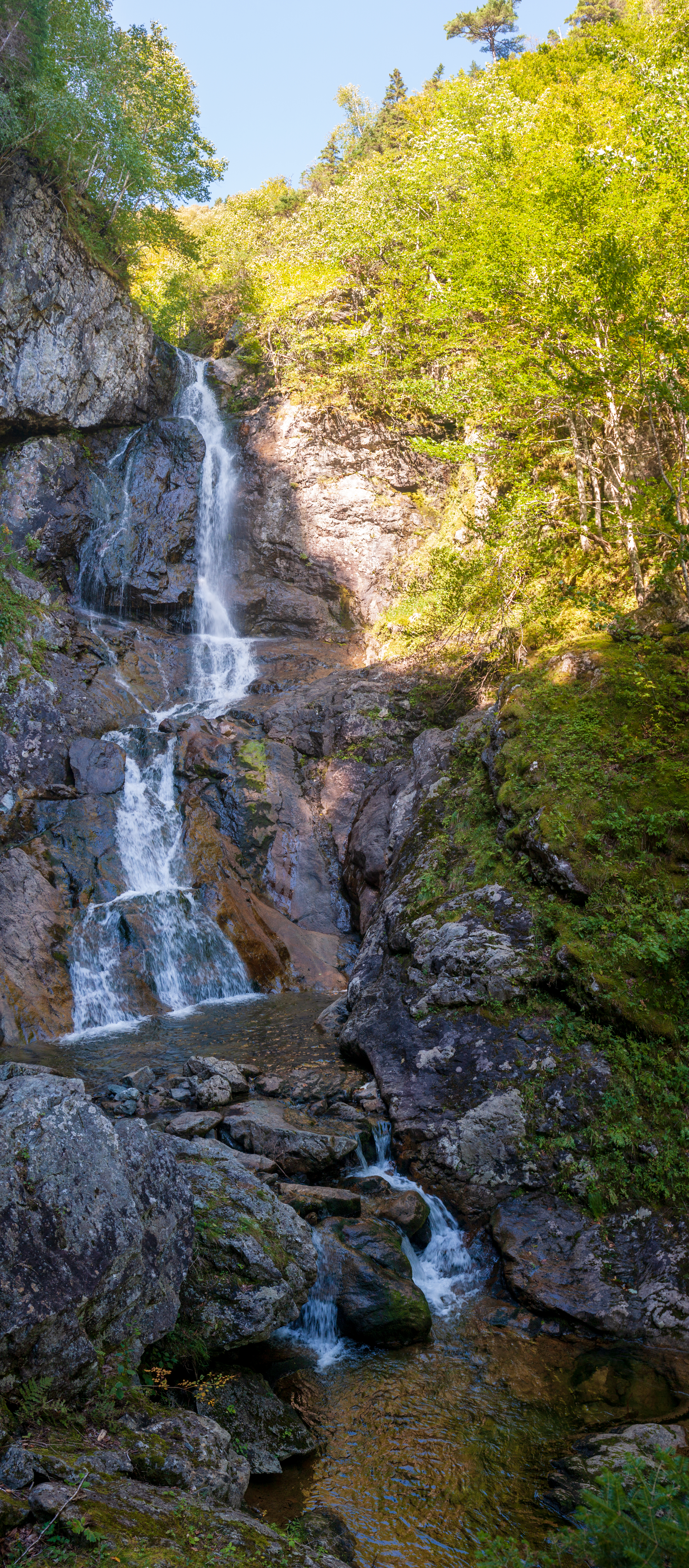 Uisge Ban Falls Provincial Park (alternative spellings 'Easach'; 'Bàn' or 'Bahn') is a provincial park near New Glen, in the Canadian province of Nova Scotia on Cape Breton Island, 14.5 kilometres (9 miles) north of Baddeck. The civic address of the park entrance is 715 North Branch Road, Baddeck Forks, Nova Scotia, Canada B0E 1B0 The name Uisge Ban comes from the Gaelic meaning “white water”. This picnic and hiking park is managed by the provincial Department of Natural Resources and contains Easach Ban Falls. The 16 m (50 ft.) high waterfall is accessible by trail. The Trails The Falls Trail is approximately 3.0 kilometres (1.8 miles) in length and requires about one hour to complete. The trail passes through a field then follows Falls Brook upstream through a mixed forest and then a climax hardwood forest composed largely of maple, birch, and beech. The deep stream valley narrows dramatically in the vicinity of Easach Ban Waterfall. At the falls, the sheer walls of the gorge tower 150 metres (500 feet) on either side. The original trail was developed with assistance from the Nova Scotia Forest Technicians Association. Recent improvements were undertaken by Stora Enso and the Nova Scotia Department of Natural Resources. The River Trail Another trail in the park, The River Trail proceeds north from Falls Brook. It is about 3.0 kilometres (1.8 miles) in length (return) and requires about one hour to travel. Following along the banks of the North Branch Baddeck River, the trail winds through a climax sugar maple, yellow birch, beech forest at the foot of the river valley’s steep slope. This provincial park trail is well maintained and has interpretive signs and a map at the trail head. There are pit toilets and picnic tables in the parking area.[